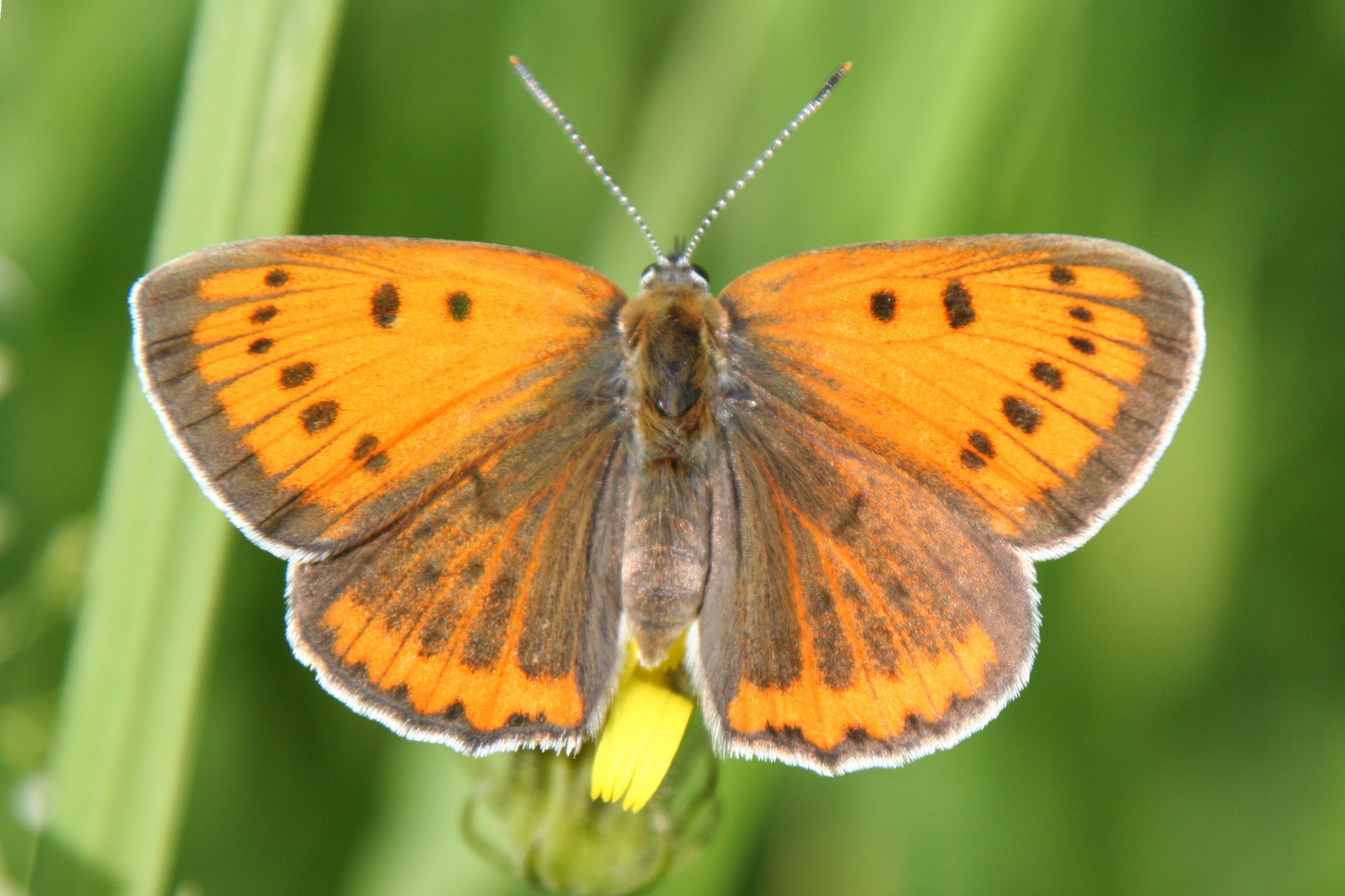 A female of the Large Copper butterfly (Lycaena dispar), photographed in Obersulm-Affaltrach on a meadow near the Sulm river